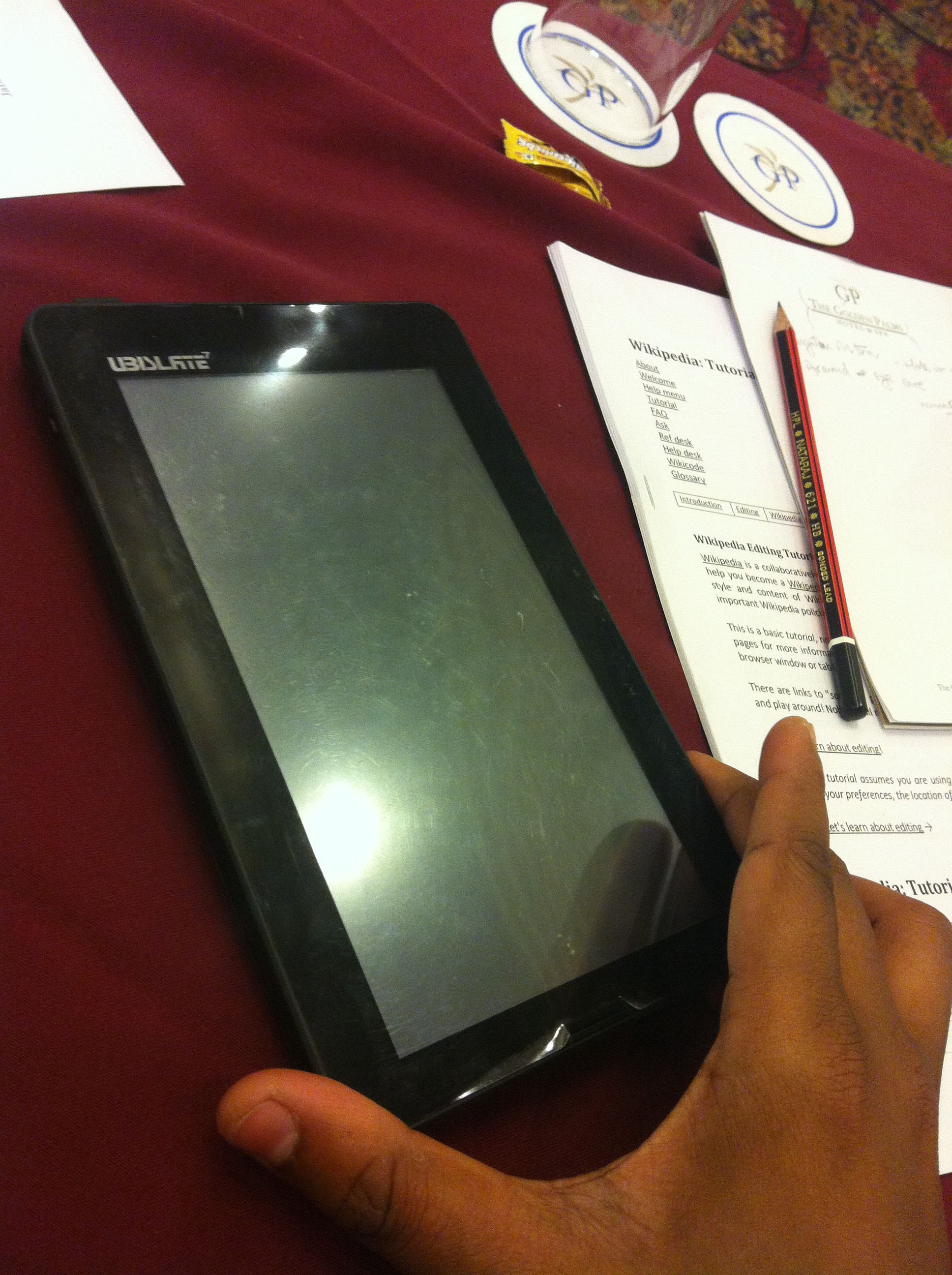 Askaash Ubislate tablet prototype